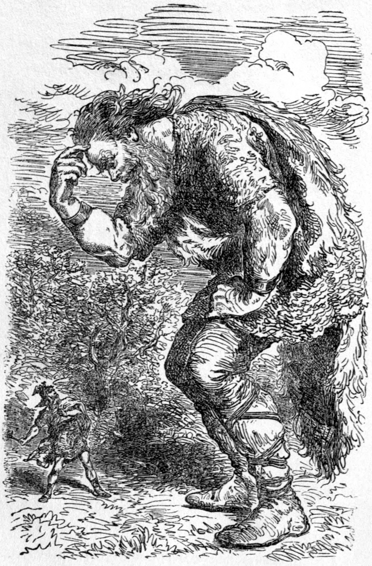 Giant Skrymir and Thor (the title given to this illustration in the book)